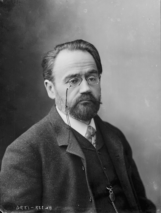 Émile Zola in 1885